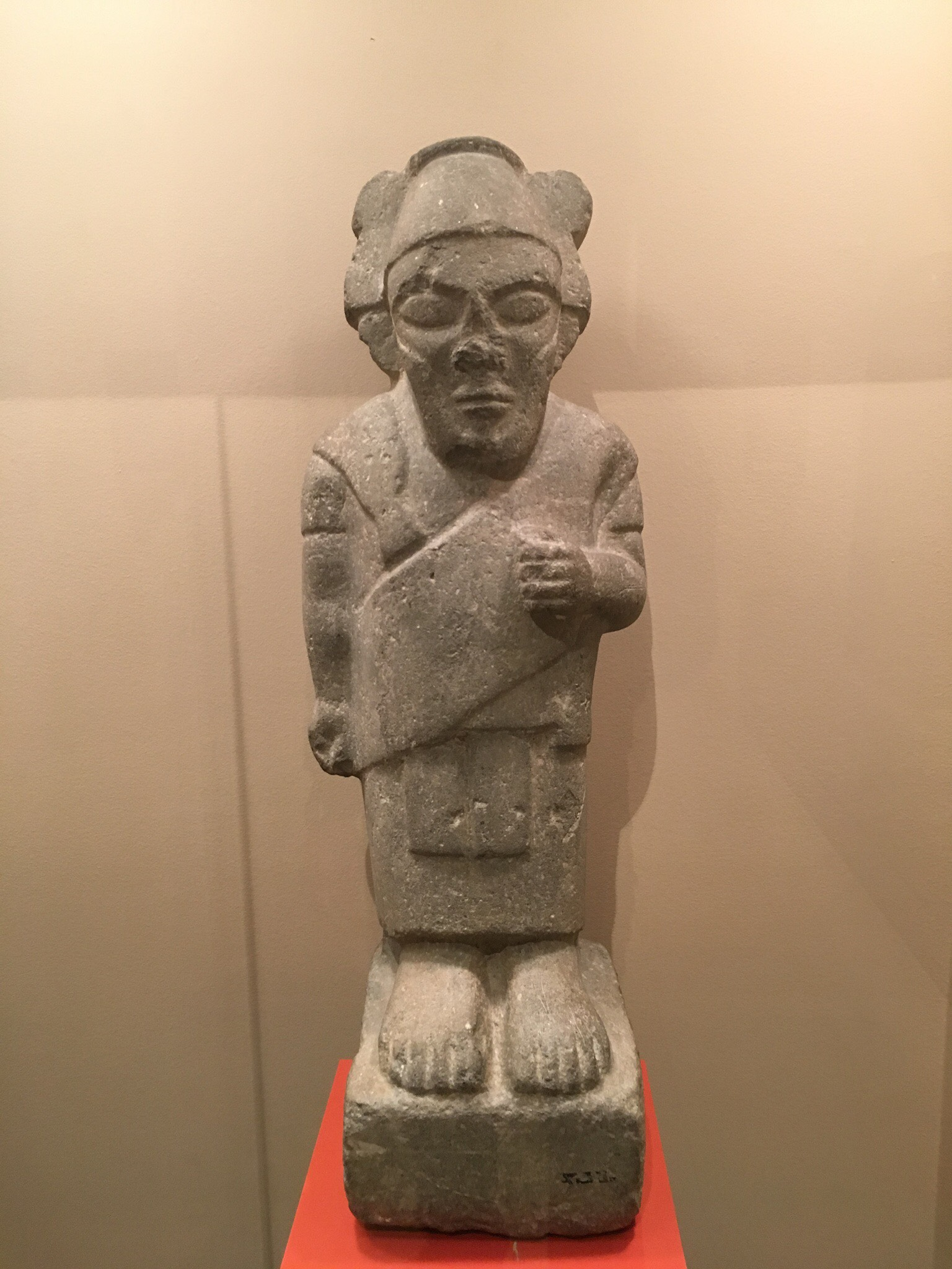 Statue of an Ammonite deified King on display at the Jordan Museum. He is wearing a shawl over a garment in the Aramaic-Syrian tradition and an Egyptian-style atef crown, symbol of kings and gods. It was found in the vicinity of the Amman citadel. Dating to the Iron Age II (around the middle of the eighth century BC)